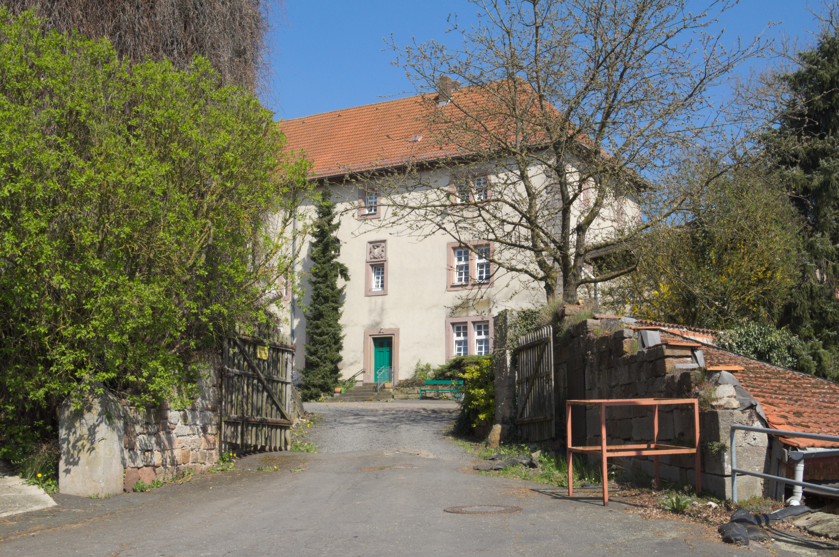 Building "Schloss Hattenbach" Schlossberg, Hattenbach, Niederaula, Hesse, Germany